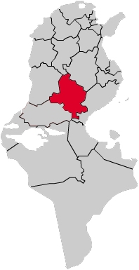 Map of Tunisia with highlighted Sidi Bou Said Governorate